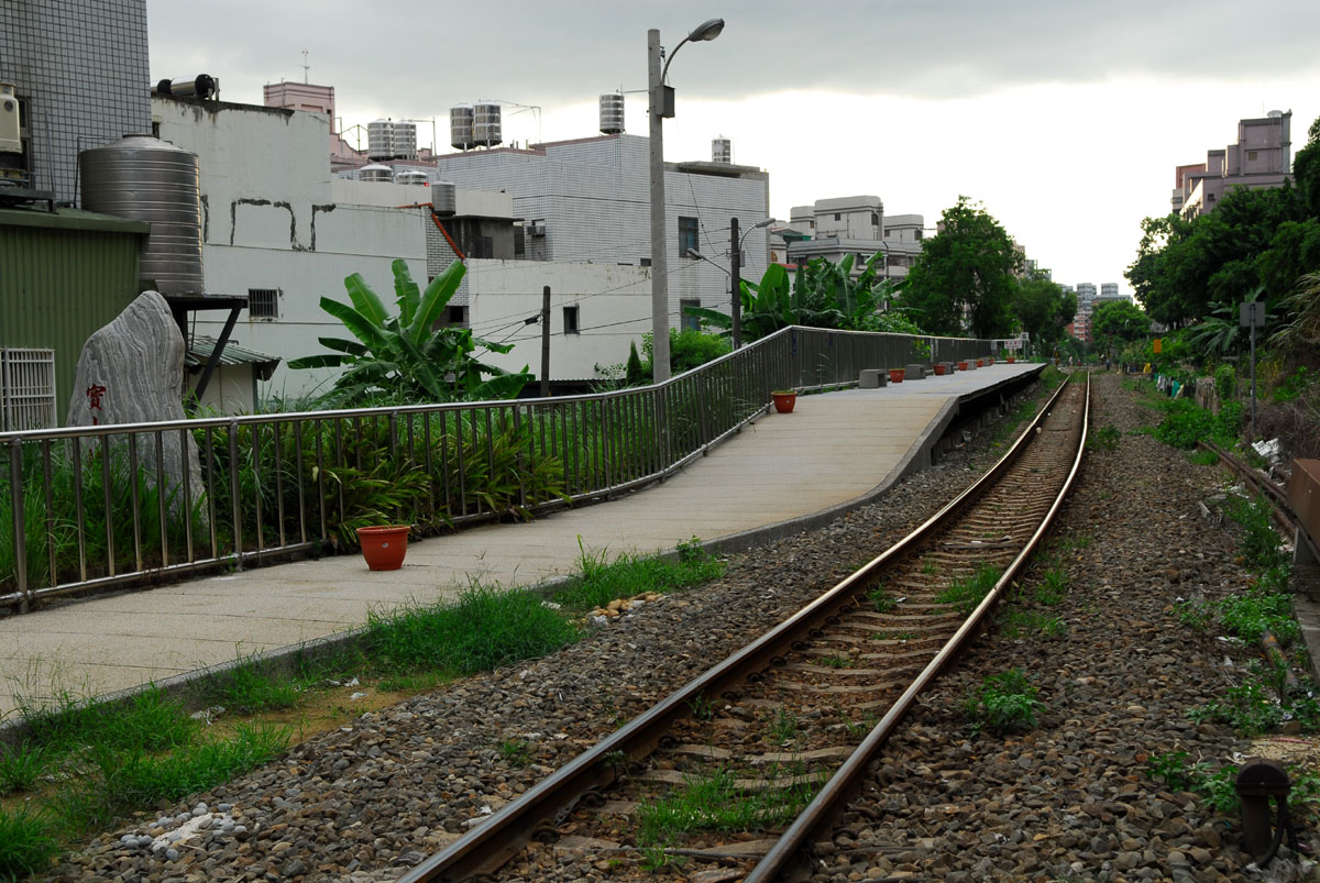 Baushan Station is a small station on Linkou Line. It located in the middle of a new developed residential area.